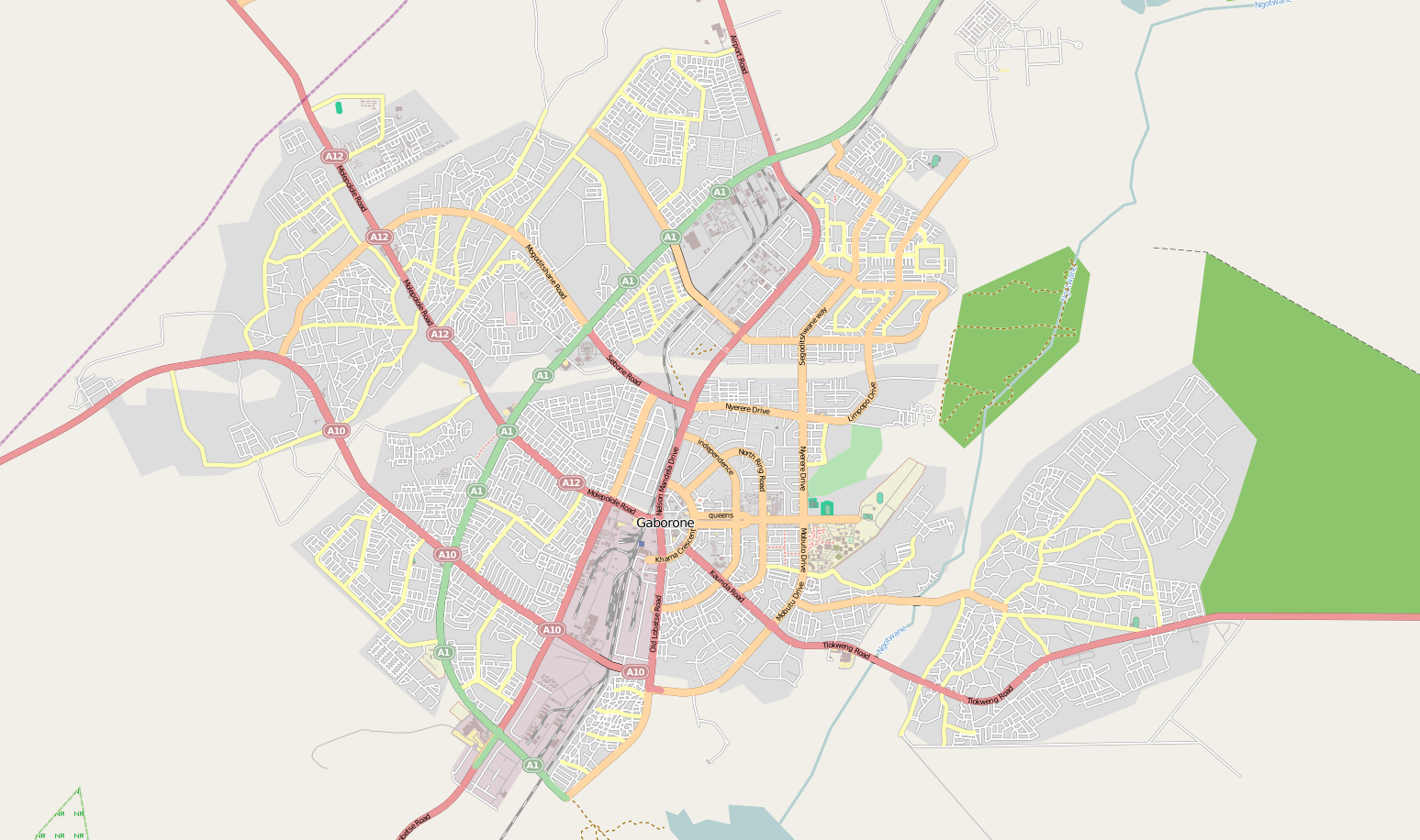 This map may be incomplete, and may contain errors. Don't rely solely on it for navigation.